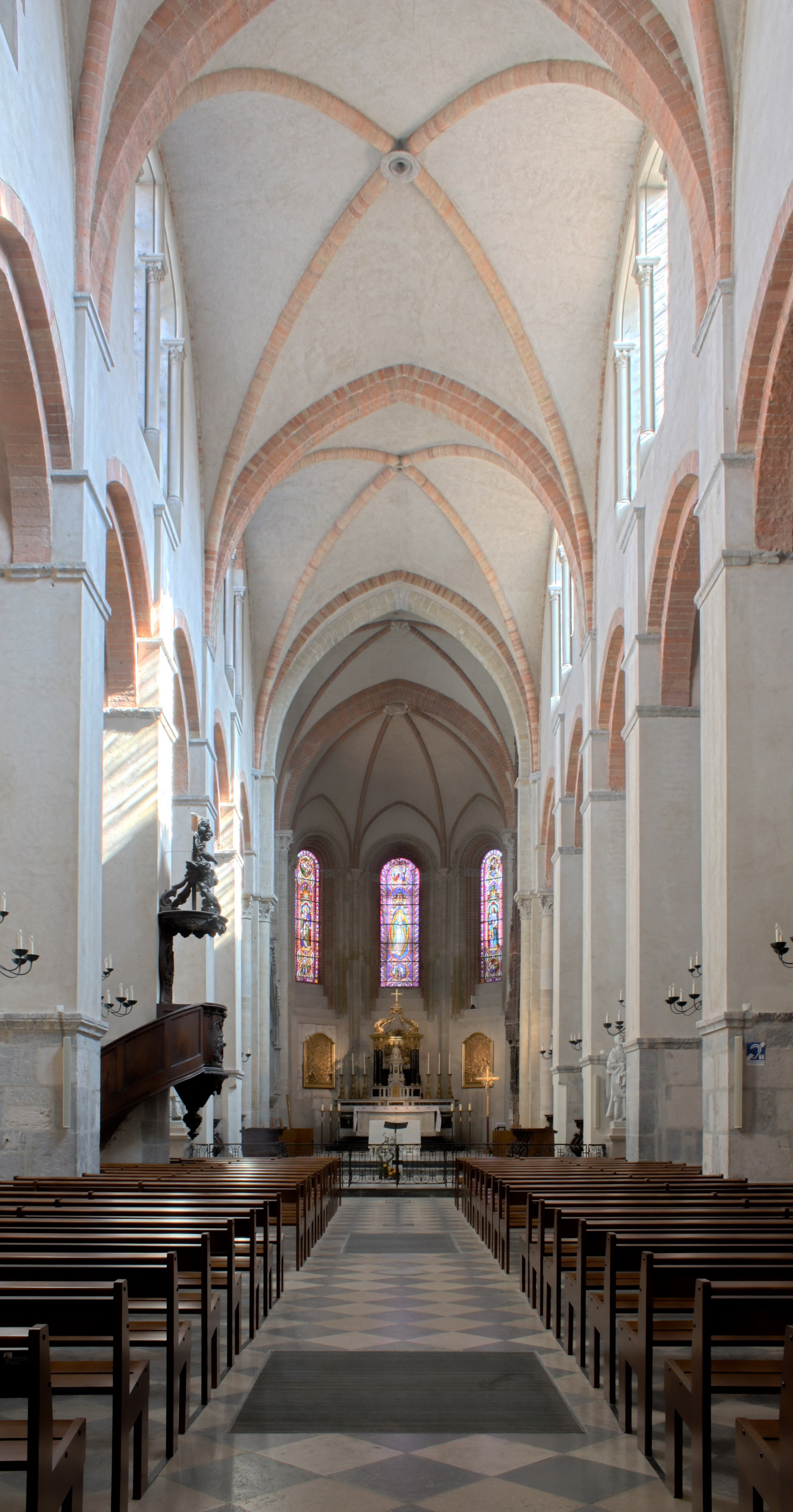 The nave of cathedral “Our Lady” (Notre-Dame) in Grenoble (Isère, Rhône-Alpes, France).